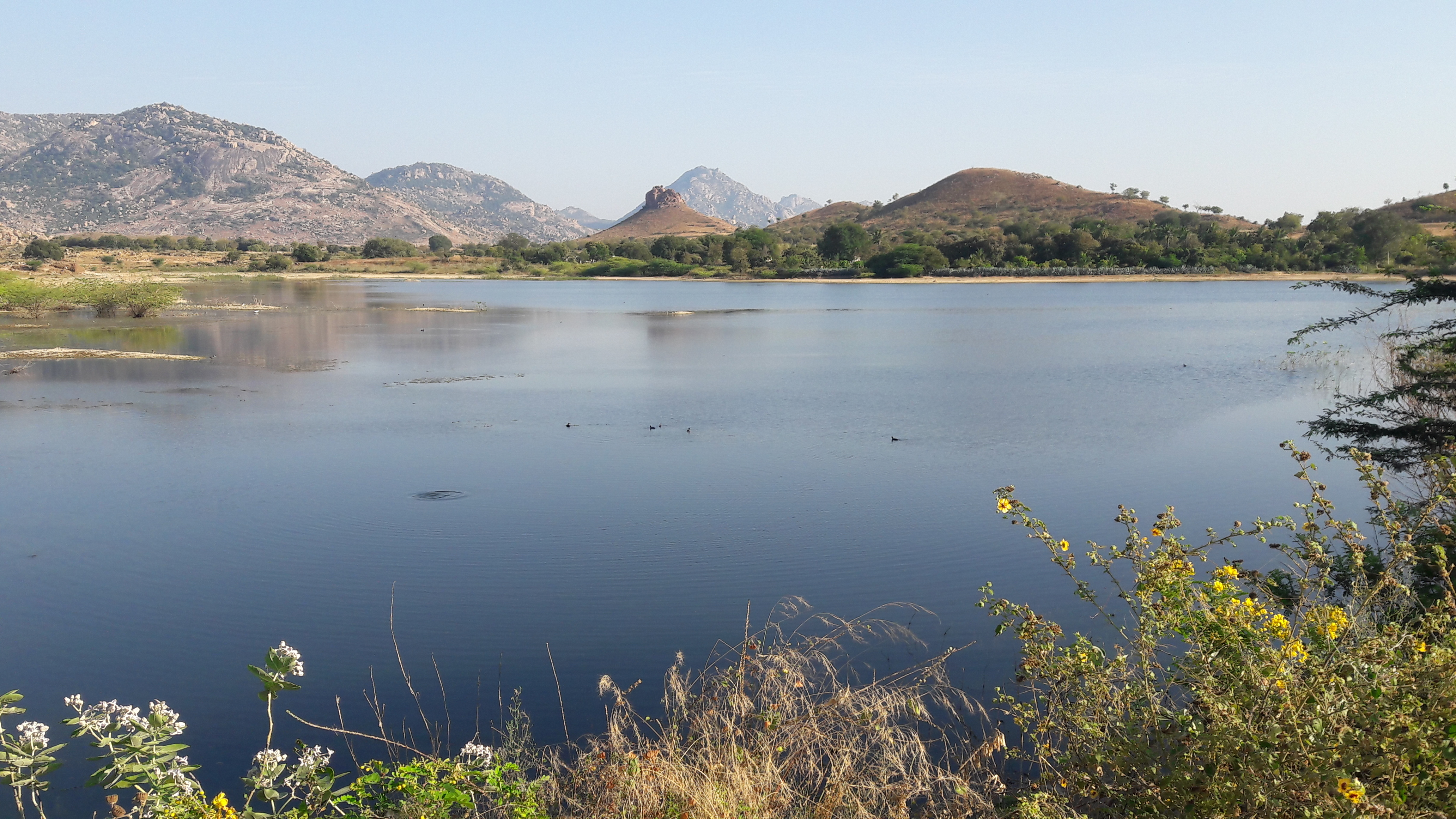 This is a Araveedu pond view